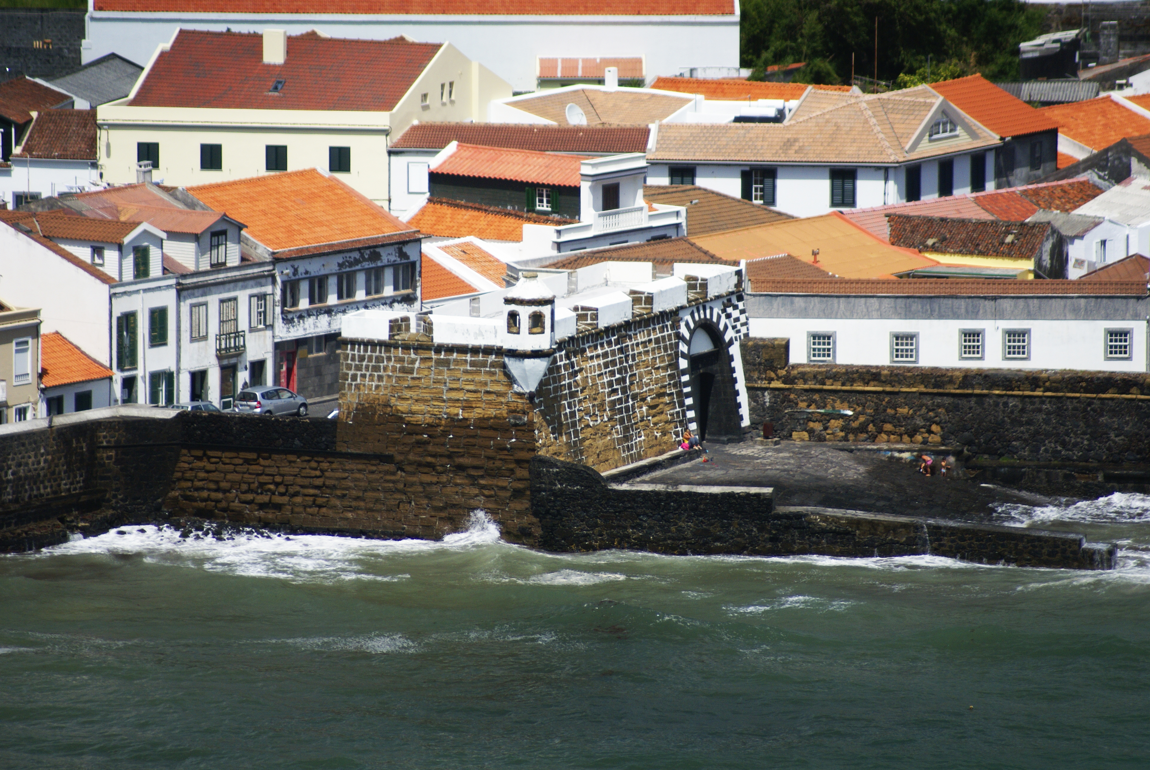 Portão Fortificado de Porto Pim visto apartir do Monte da Guia, Concelho da Horta, ilha do Faial, Açores, Portugal